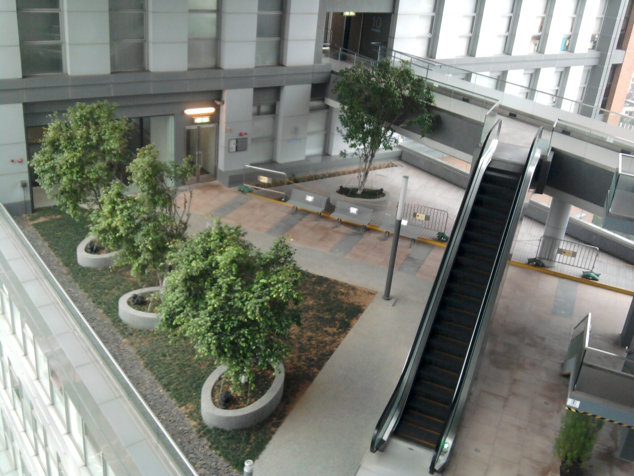 9/F, Sky Garden, Hong Kong Community College (West Kowloon Campus)